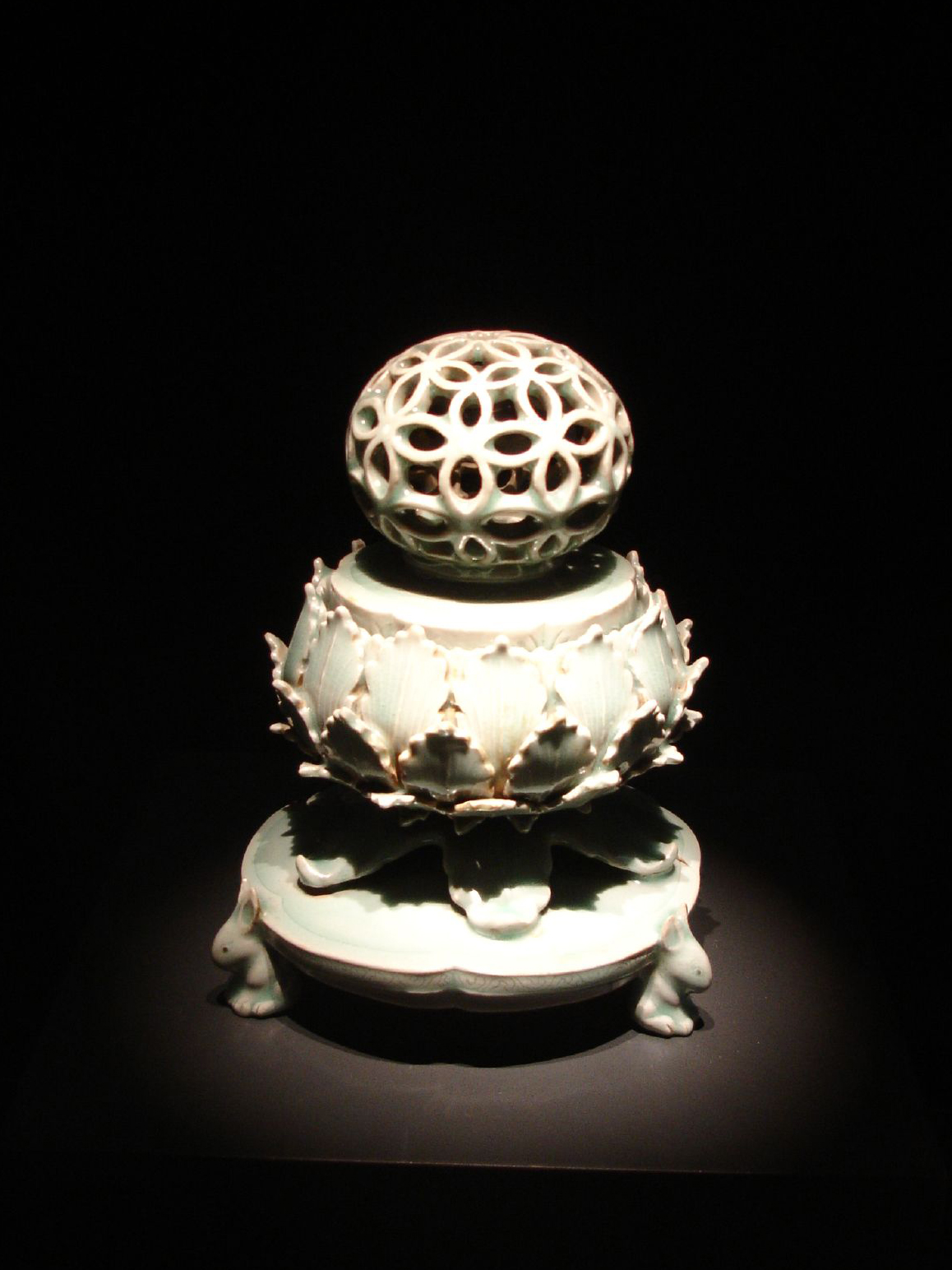 A celadon incense burner from the Goryeo Dynasty with Korean kingfisher glaze. It is the 95th National treasure of South Korea and is currently held at the National Museum of Korea.